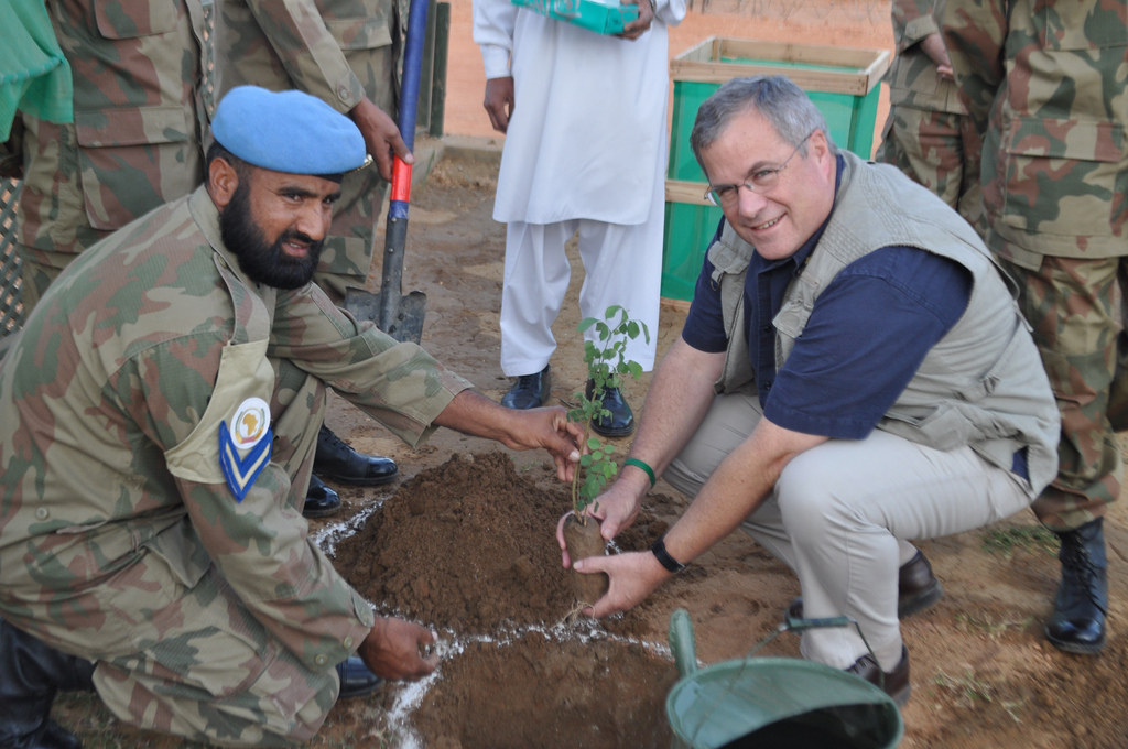 SE Gration plants a tree on a UNAMID compound in West Darfur.